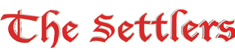 Logo for the 1993 video game The Settlers